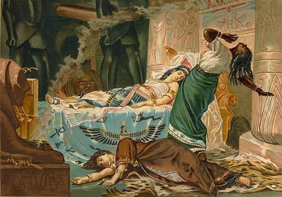 The Death of Cleopatra (Spanish: La Muerte de Cleopatra), a painting by Juan Luna.